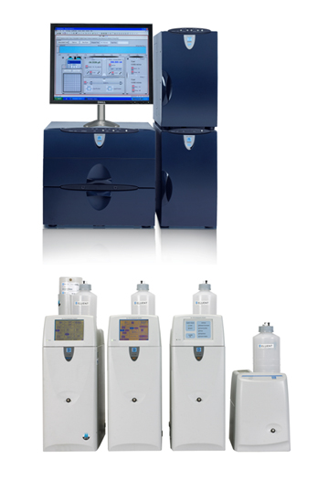 Dionex IC Systems